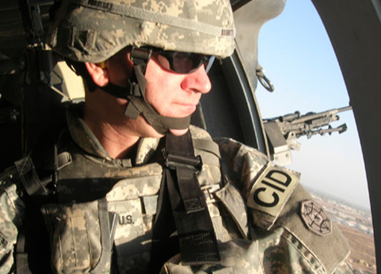 An officer of the United States Army Criminal Investigation Command (USACIC) in a helicopter while on duty. He wears a "CID" badge that is used to identify criminal investigation personnel and operations. This refers to the original Criminal Investigation Division formed during World War I; the abbreviation is retained today for continuity purposes.